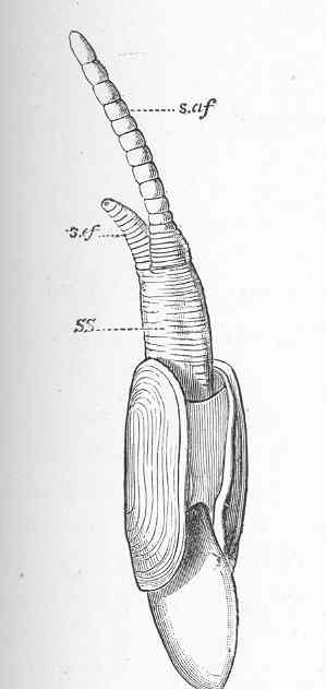 Solecurtus strigillatus L., Naples Subject: Solecurtus Tag: Mollusks